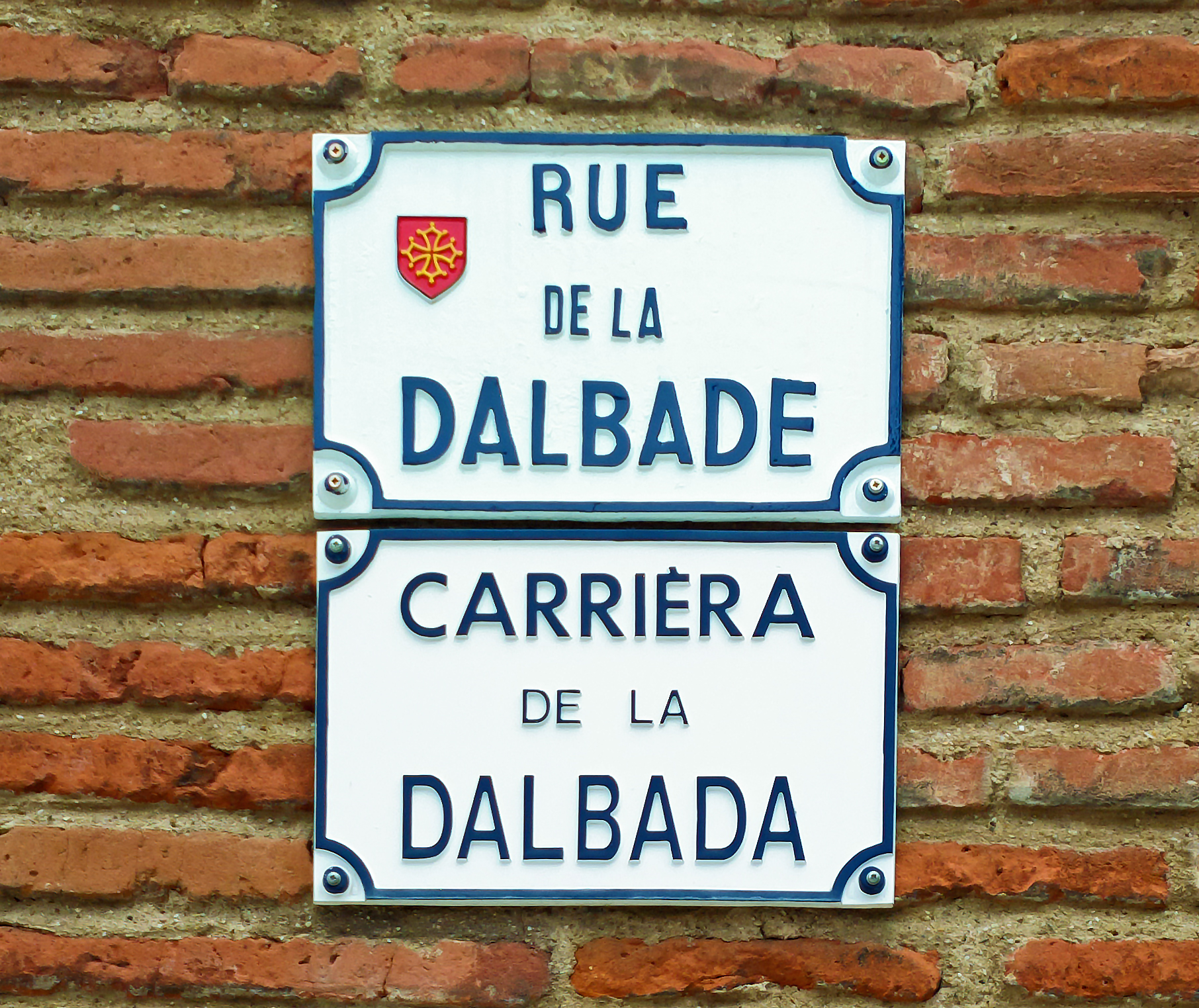 La Dalbade street, in Toulouse - Street name sign. They have the particularity of being: in French and Occitan.